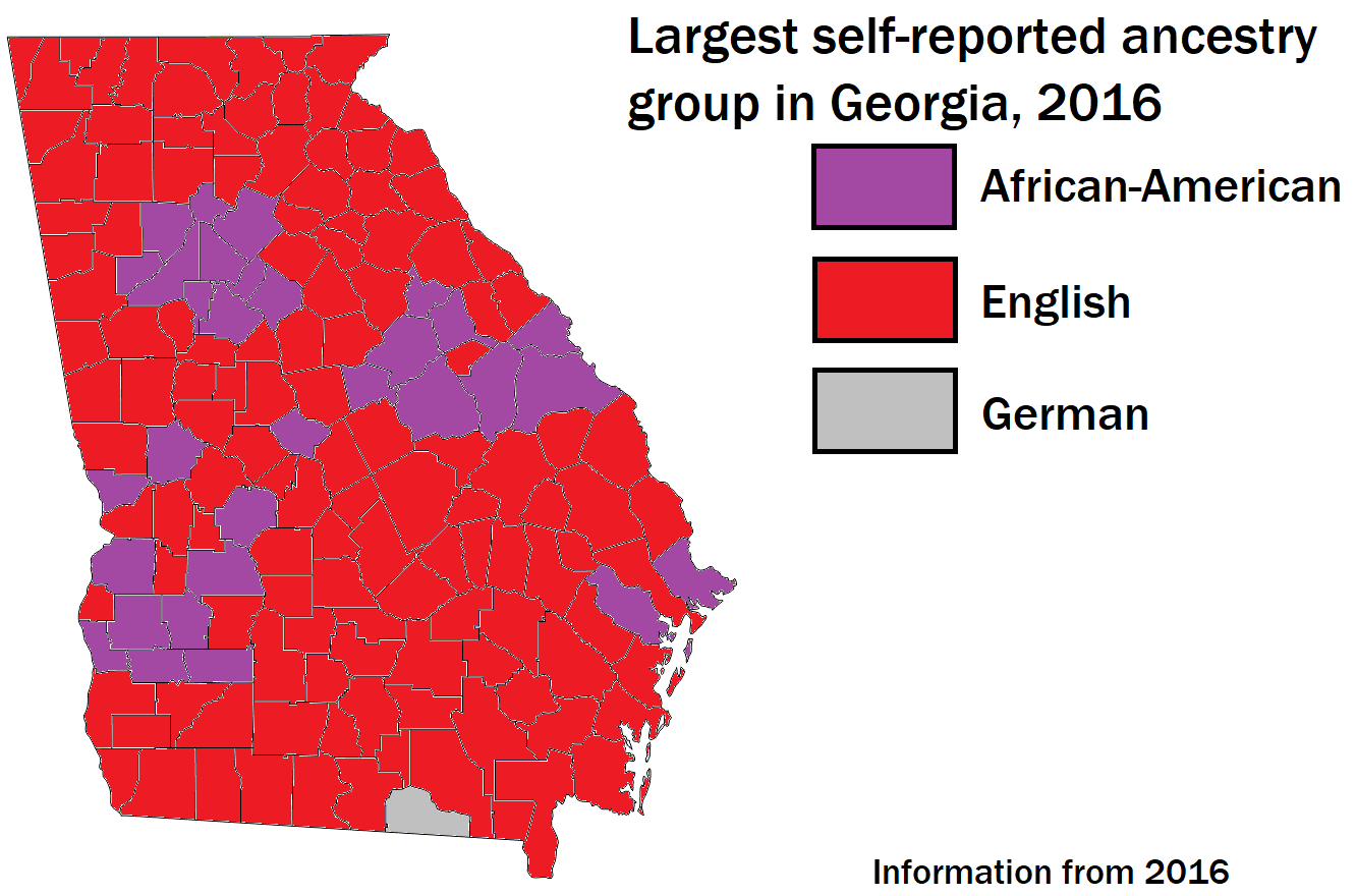 Georgia ancestry map, largest self-identified ancestry groups in Georgia as of 2016. Map reflects both pluralities and majorities.